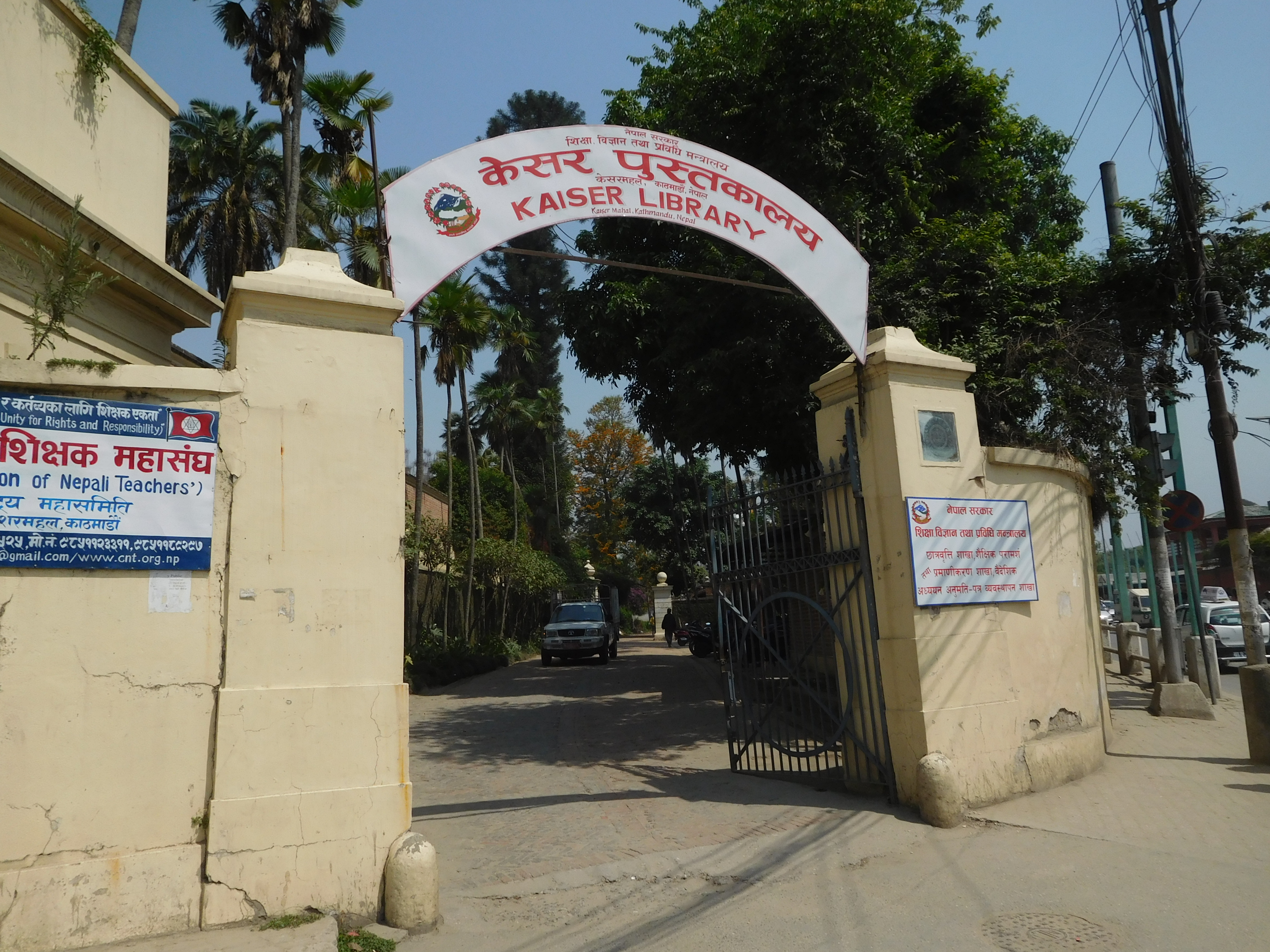 The entrance of the Kaiser Mahal property, leading to the Kaiser Library